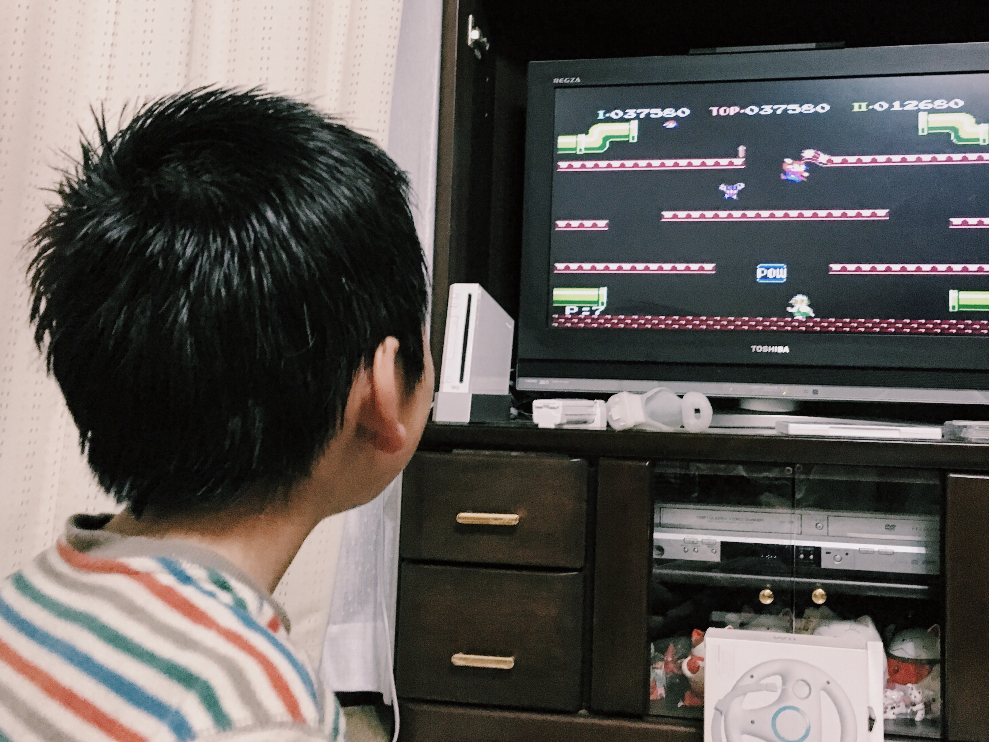 Processed with VSCOcam with c1 preset